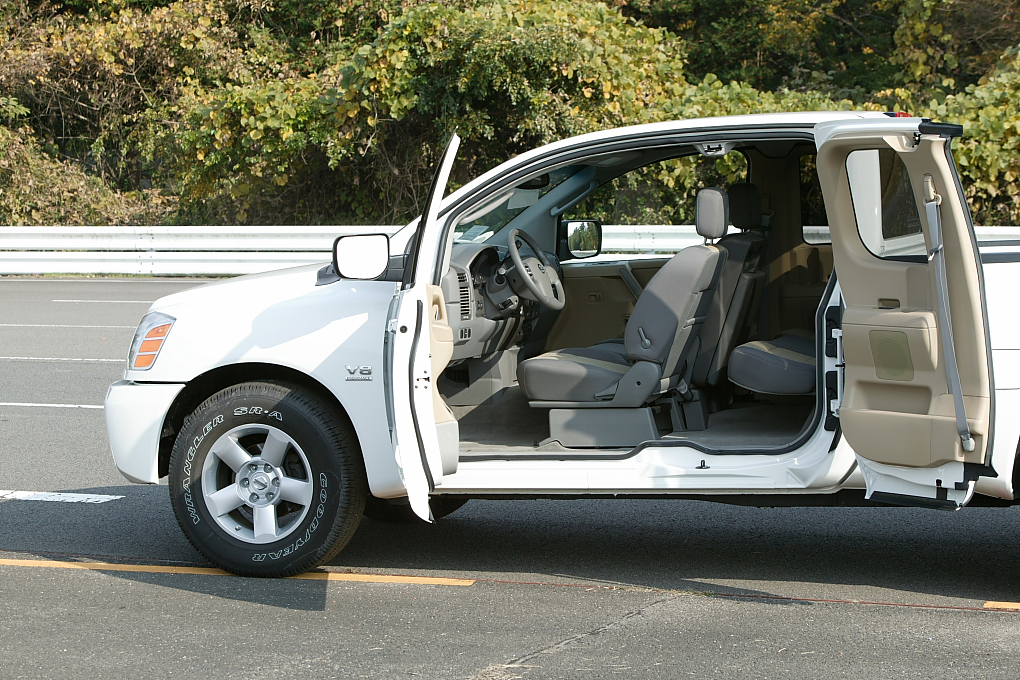 Nissan Titan King Cab '05 (extended cab)